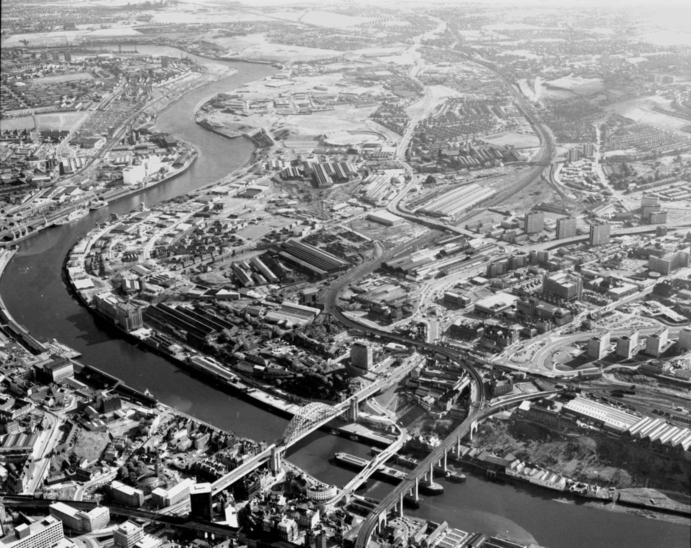 With the Tyne bridges bottom centre, this shot looks over Gateshead to the north east. Gateshead International Stadium can be seen top centre. The stadium was originally opened in August 1955 and was then known as the Gateshead Youth Stadium. You can pick out the A184 Felling by-pass running into the distance. Reference: TWAS: DT.TUR.2.67679d (Copyright) We're happy for you to share this digital image within the spirit of The Commons. Please cite 'Tyne & Wear Archives & Museums' when reusing. Certain restrictions on high quality reproductions and commercial use of the original physical version apply though; if you're unsure please . To purchase a hi-res copy please quoting the title and reference number